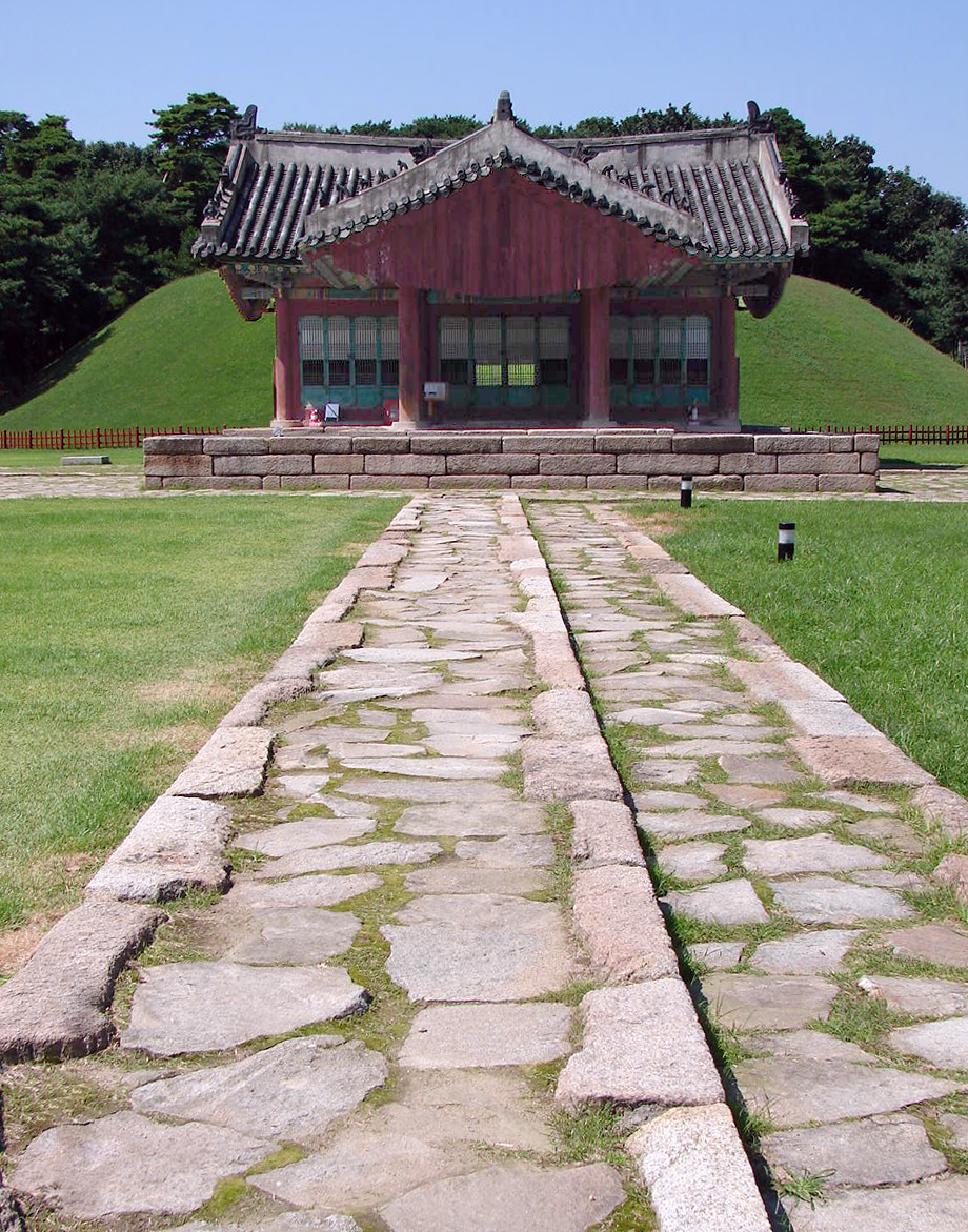 Seonjeongneung and Jeongneung is the burial grounds of two Joseon Dynasty kings and one Joseon queen. Jeongneung - Burial ground of King Jungjong, the 11th king of Joseon, second son of King Seongjong and first son of Queen Jeonghyeon.